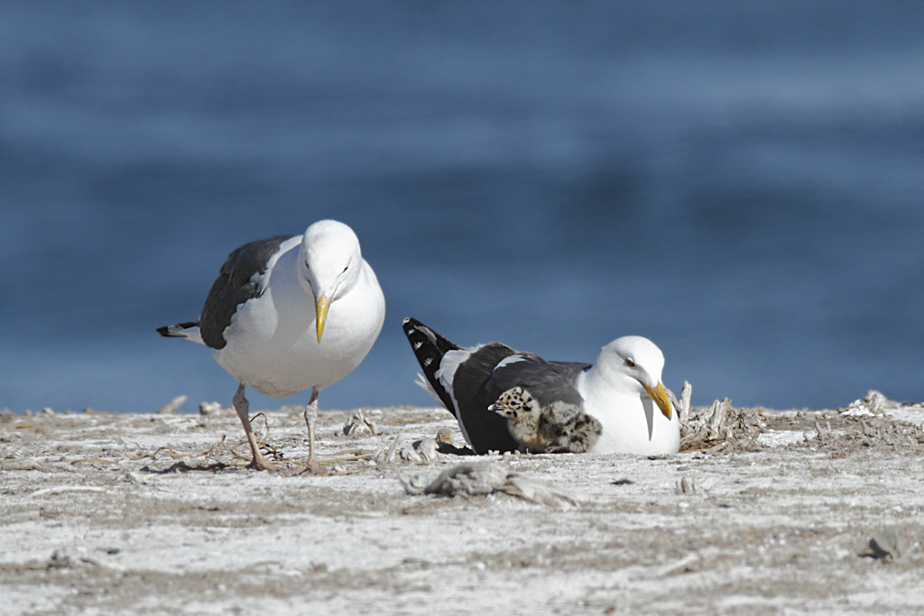 Western Gulls in San Luis Obispo, California, USA. This is the first day that the photographer saw chick from this nest. The parent may still be on eggs, and there is certainly one other very young chick under the parent. The chick only came out from under its parent very briefly, and then went back in to the protection of its parent.